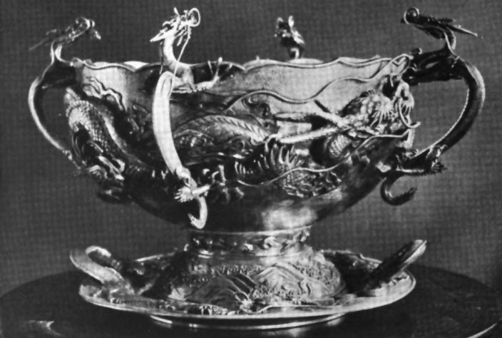 Liscum Bowl, as pictured in History of the Ninth U.S. Infantry, 1799-1909, by Fred Radford Brown (1909)